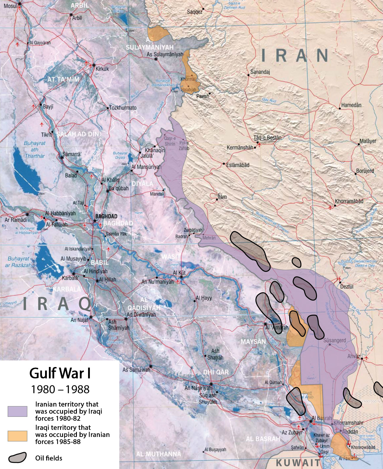 Map of the frontlines in the Iran-Iraq War